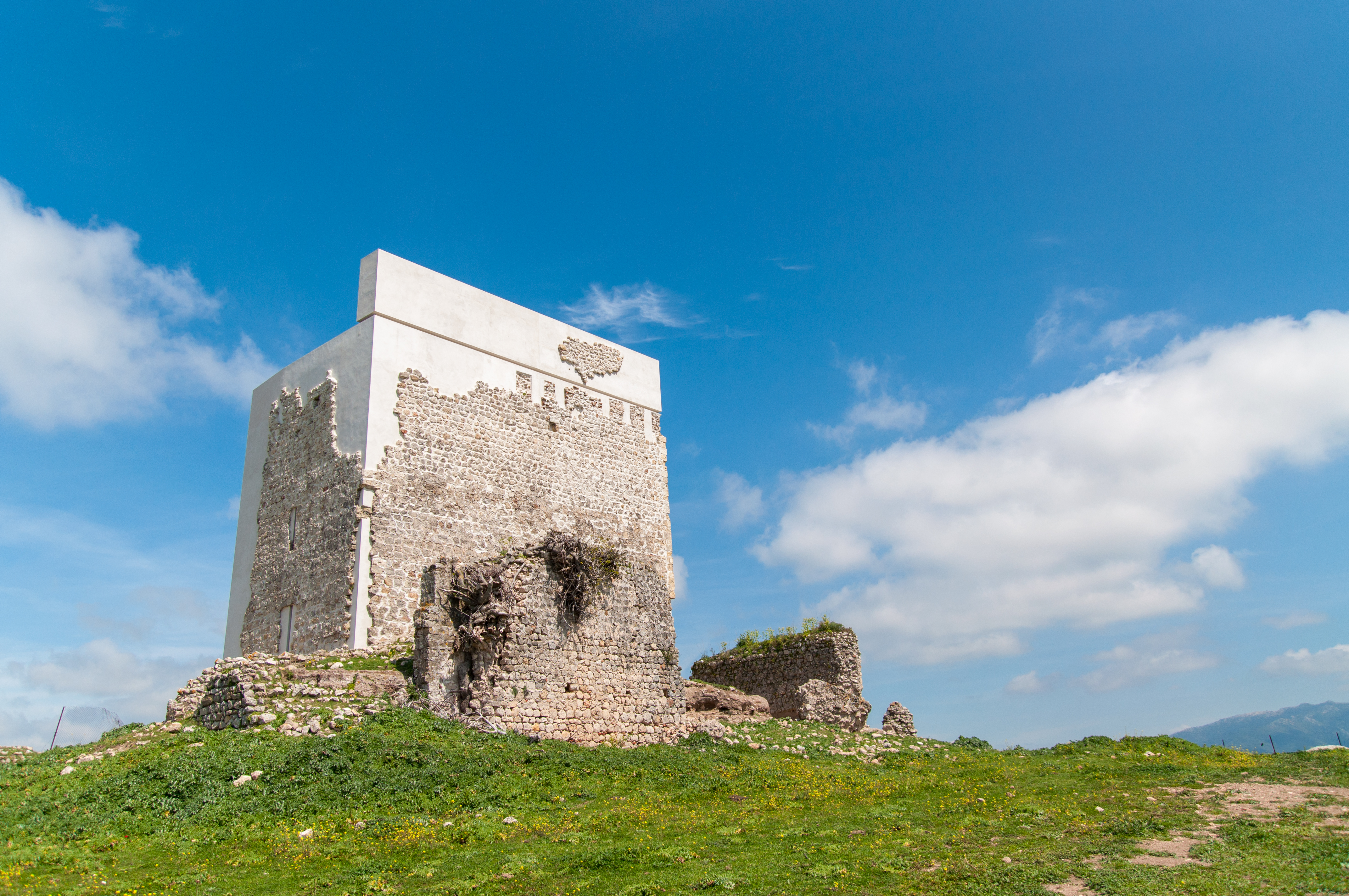 Close up photo of the Matrera Castle